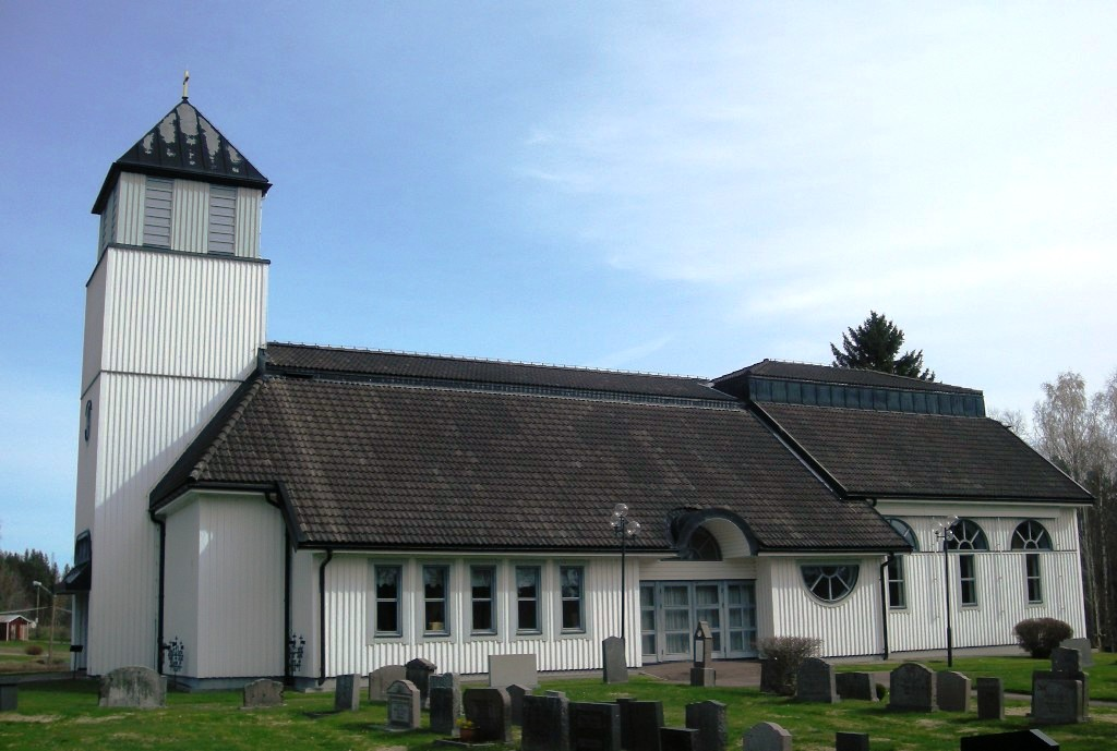 Östervallskog church, diocese of Karlstad, county of Värmland, Sweden